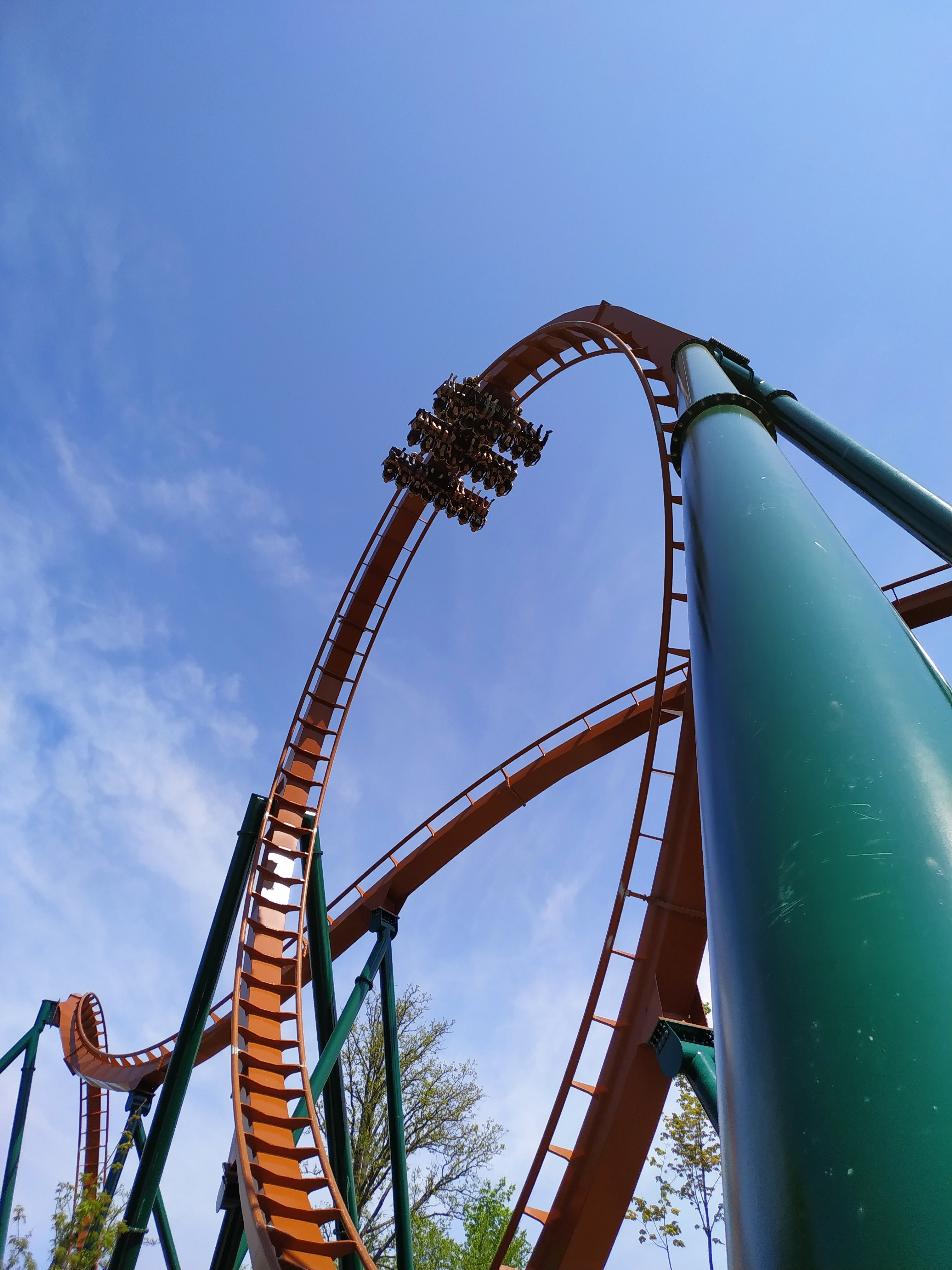 The Yukon Striker roller coaster in Canada's Wonderland. It was newly operational for the 2019 operating season.